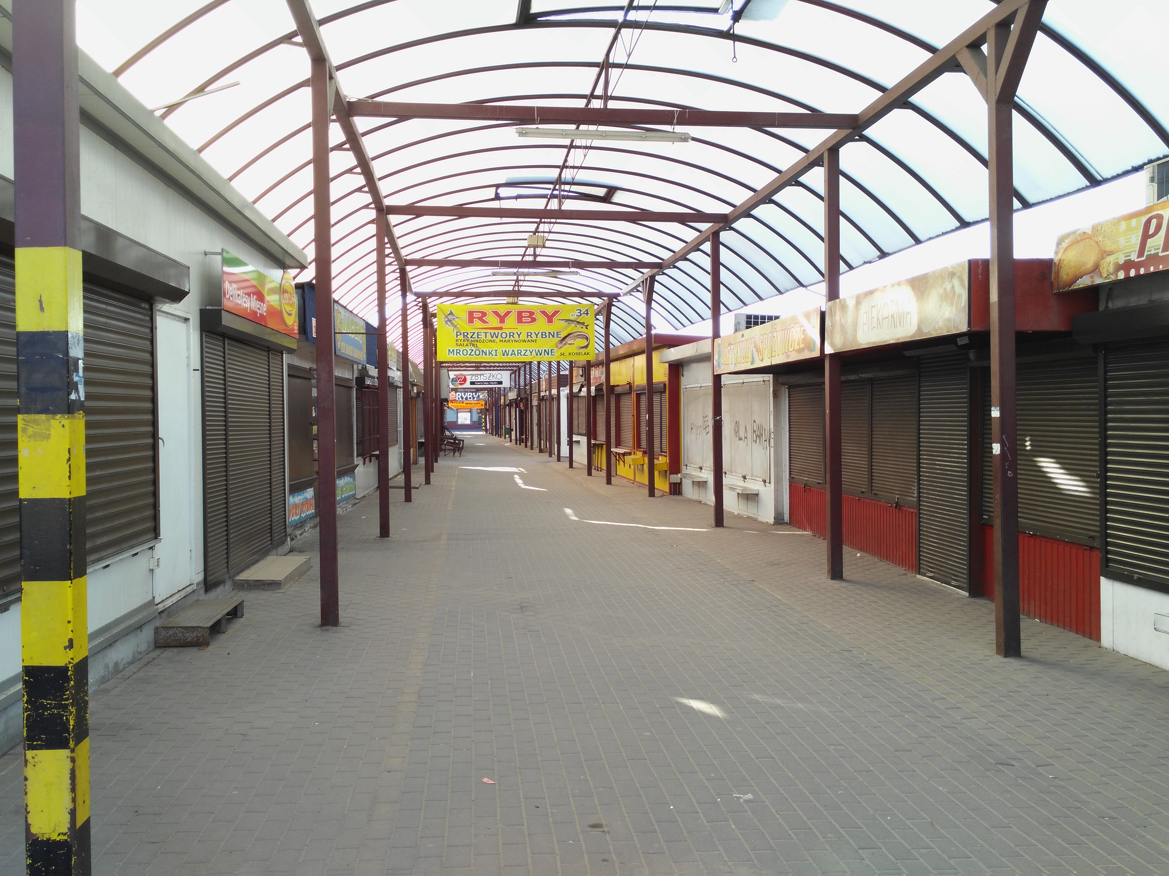 Targowisko miejskie na placu Narutowicza w Tomaszowie Mazowieckim. Rok 2017